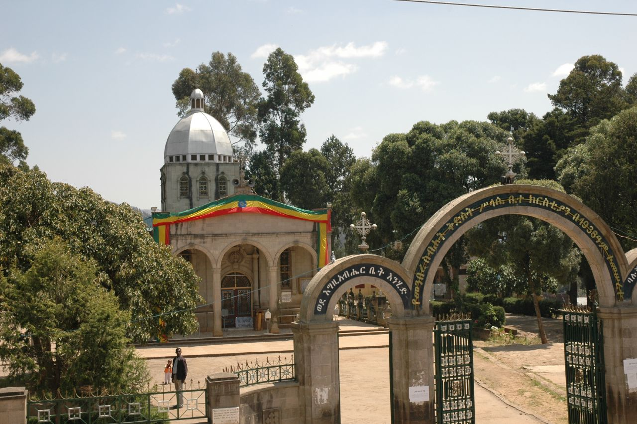 Ethiopian Orthodox Church in Addis Abeba